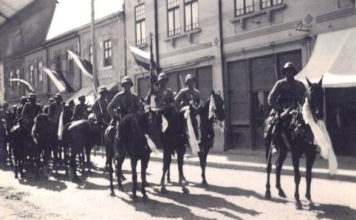 Bulgarian troops entering a town in Southern Dobrudzha after the Treaty of Craiova (1940).